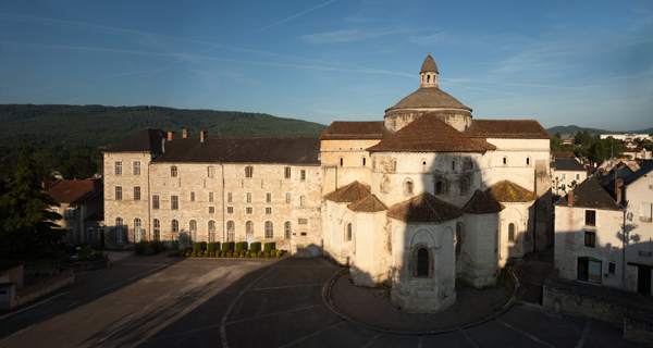 Abbaye Sainte-Marie de Souillac; Souillac, Midi-Pyrénées, Lot, France; ; ref: PM_092053_F_Souillac; ; Photographer: Paul M.R. Maeyaert; © Paul M.R. Maeyaert; ; Cultural heritage; Europeana